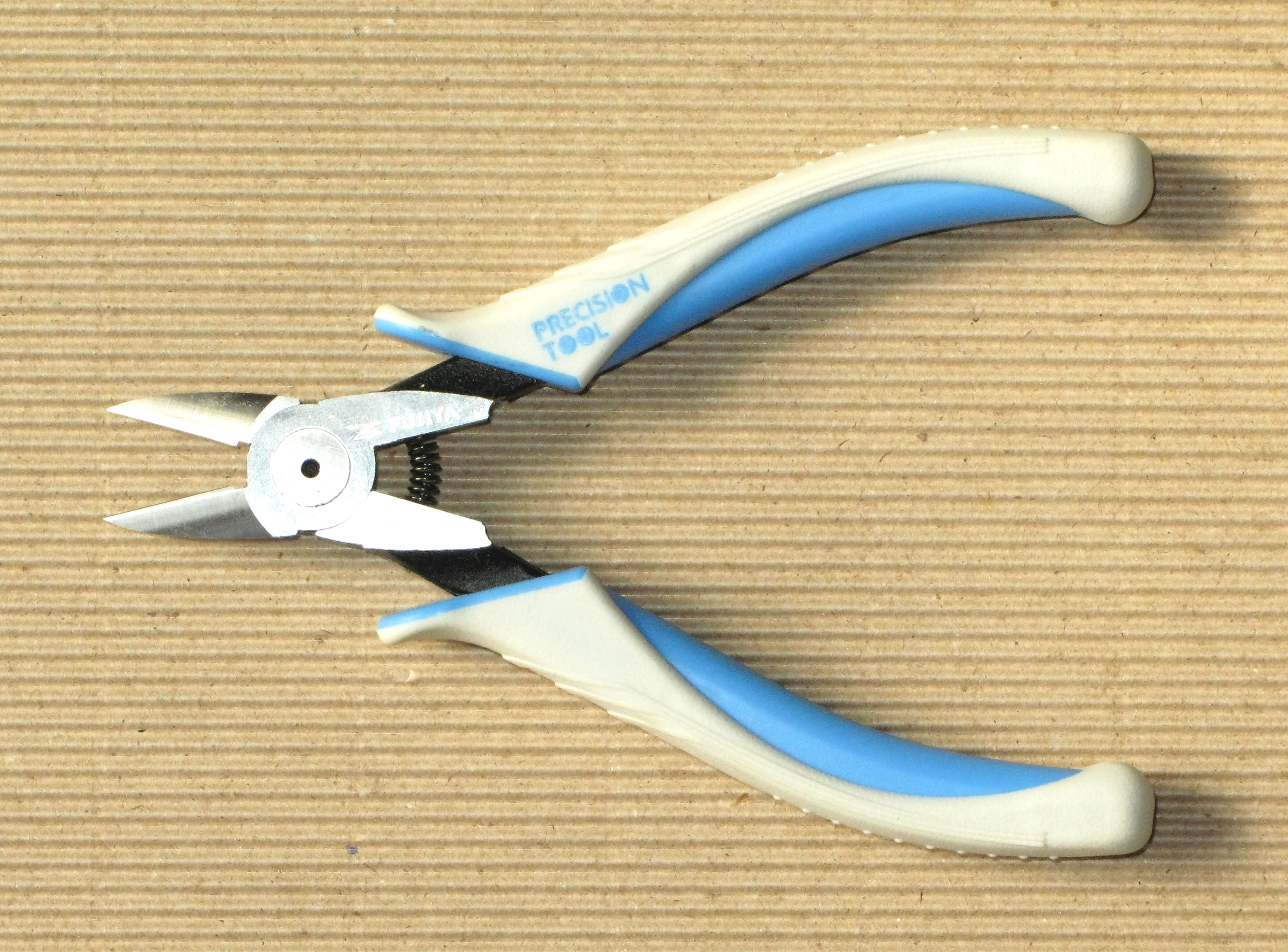 Cutting Pliers. FUJIYA brand made in japan.